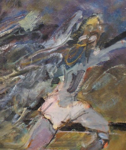 Edmond Boissonnet